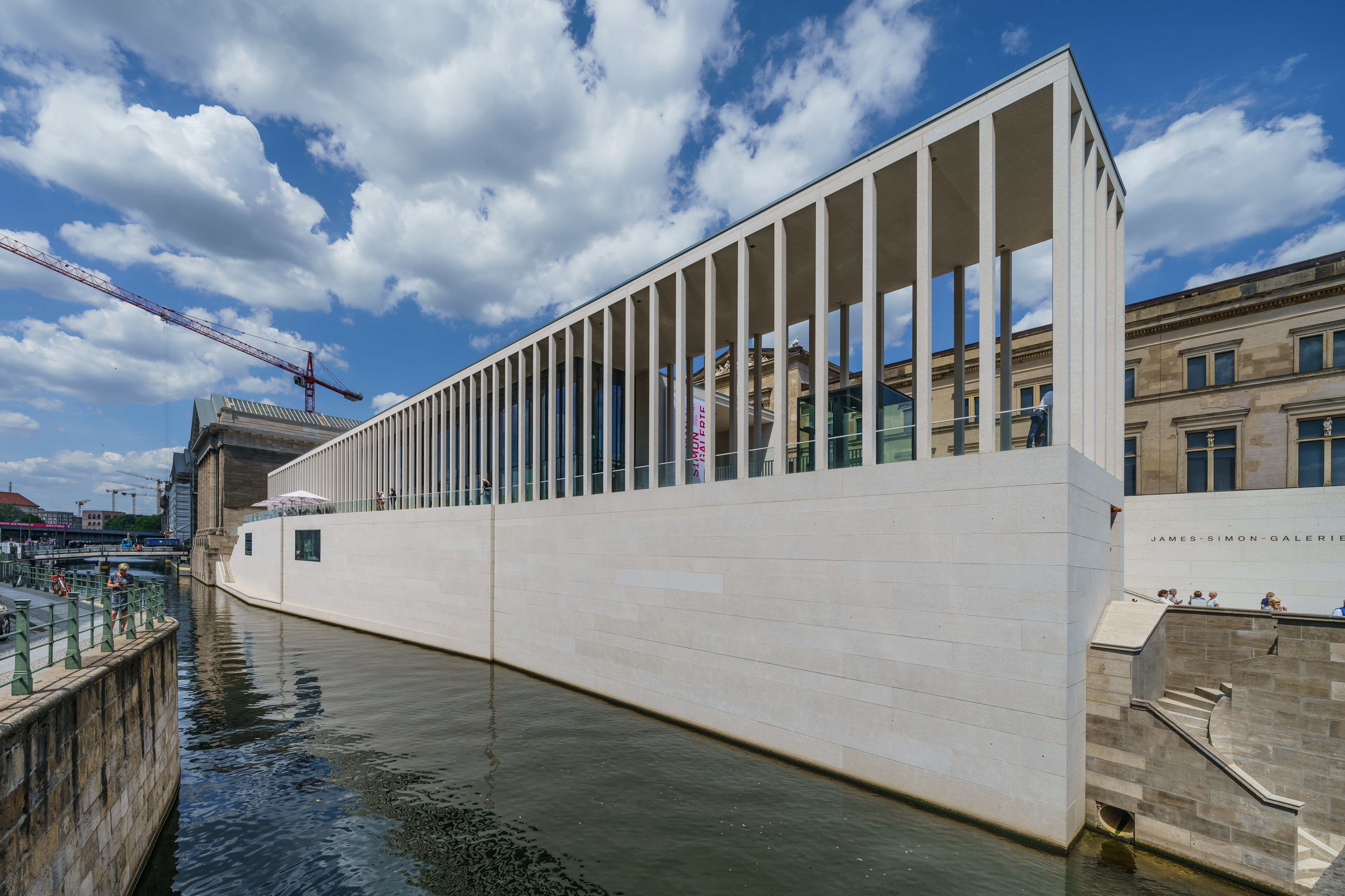 James Simon Gallery in Berlin, Germany